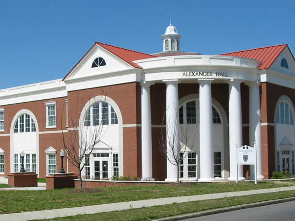 Alexander Hall at Murray State University